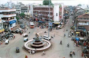 Ravivar Karanja